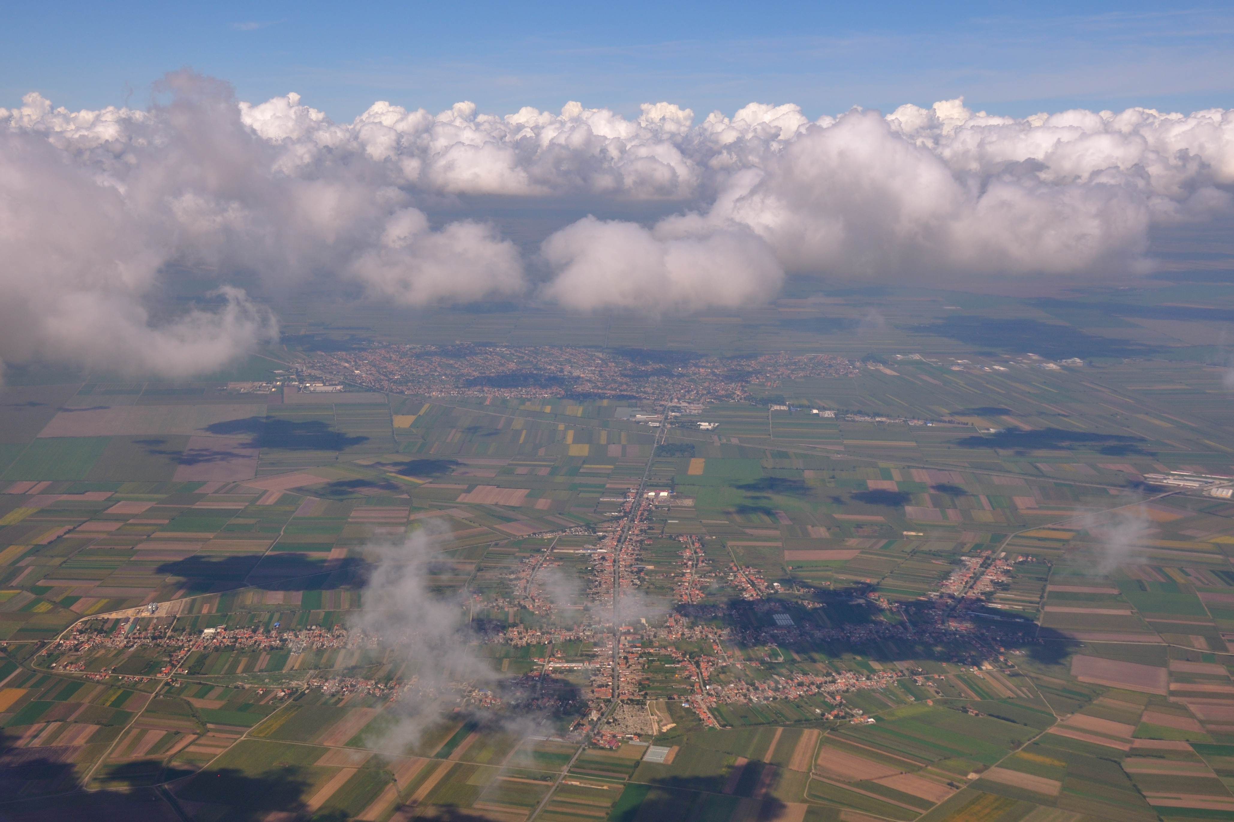 Serbia, aerial photograph after take-off in Belgrade.